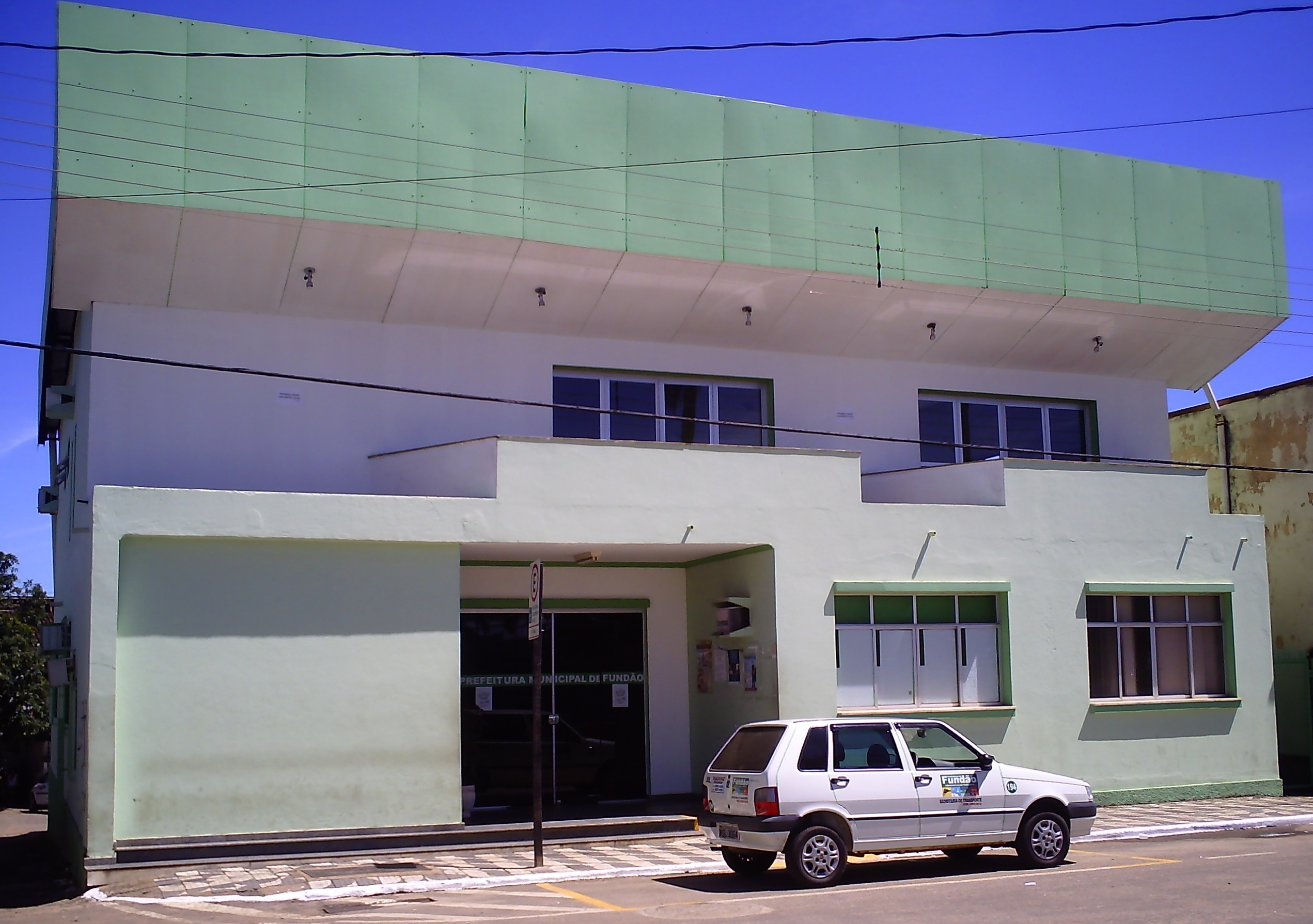 Fundão Town Hall, Espírito Santo, Brazil